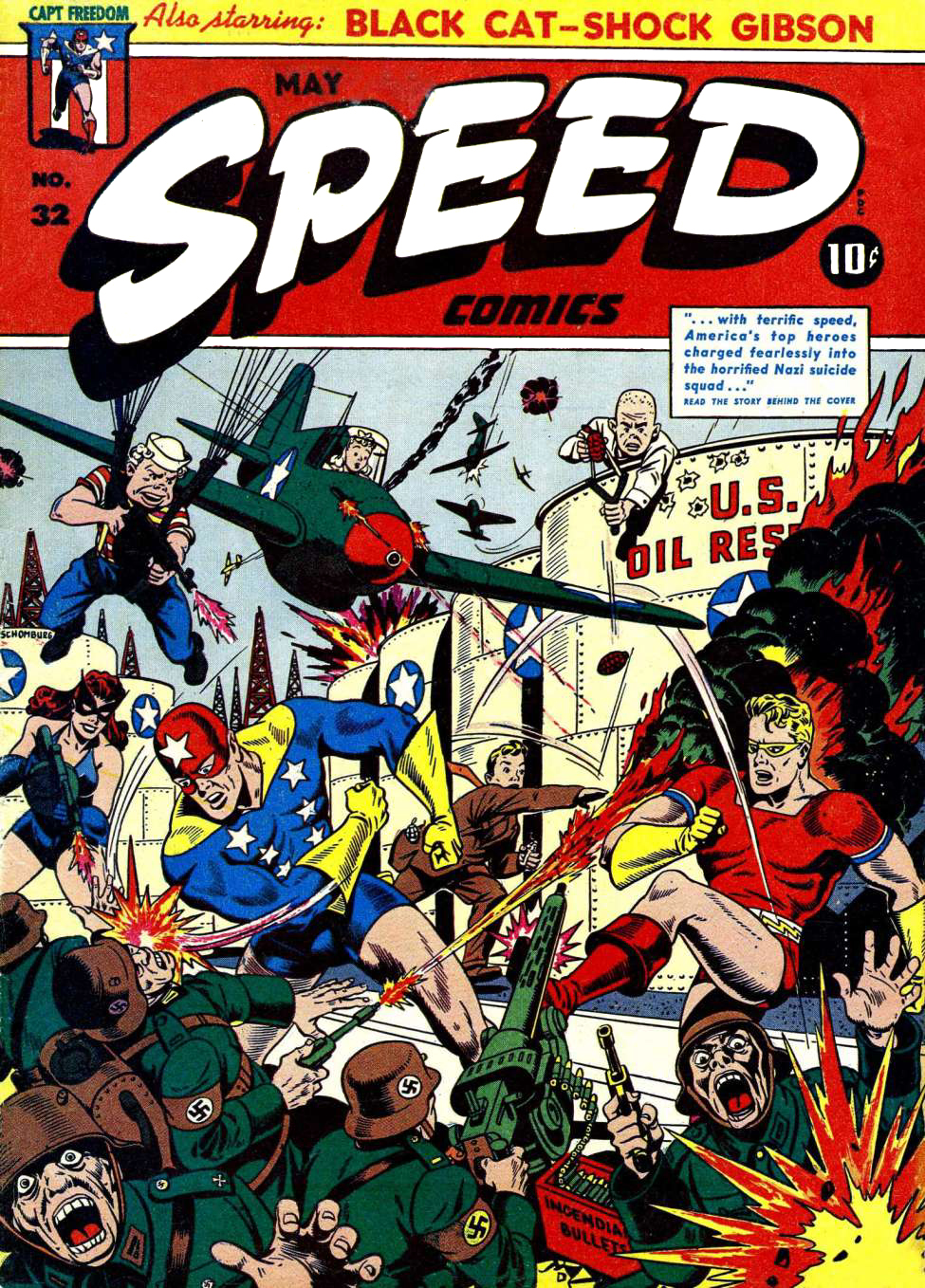 Action packed cover of Speed comics number 32, featuring Black Cat, Shock Gibson, Captain Freedom and the Young Defenders. Artwork by Alex Schomburg, May 1944. With the war in full swing, patriotically-themed comic books were an important source of propaganda.